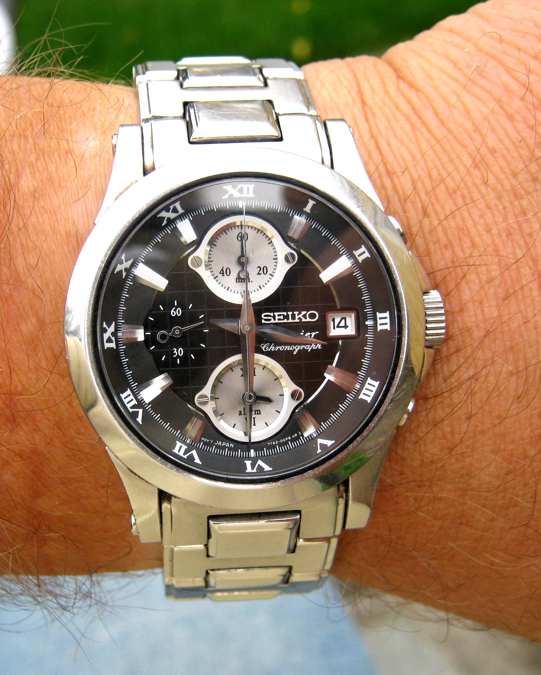 Seiko Premier watch on my hand, a 10 year anniversary gift I got 4 years ago from my lovely wife.